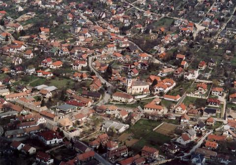 Csobánka, Hungary, aerial photography